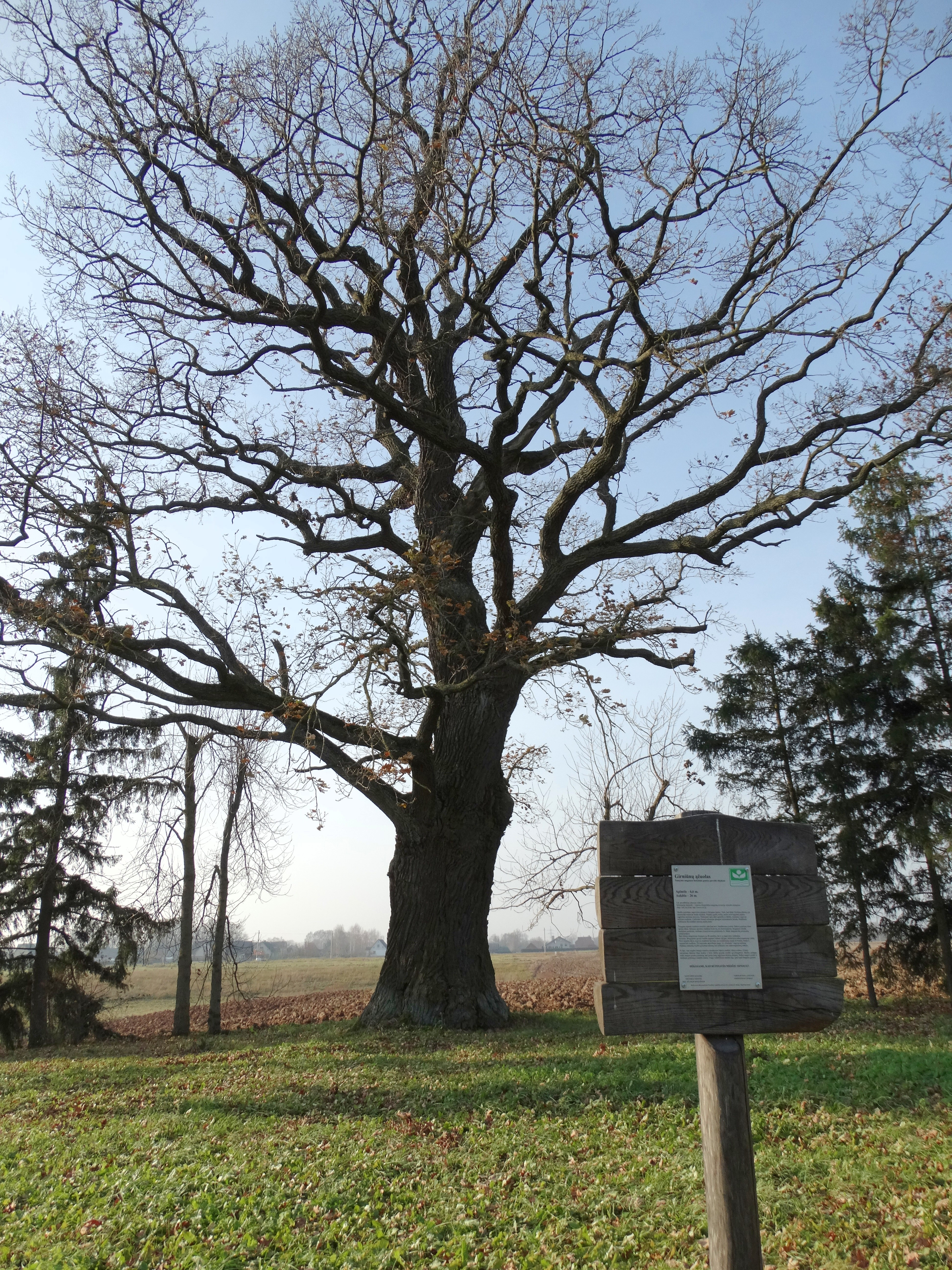 Oak tree in Girniūnai, Pasvalys District, Lithuania